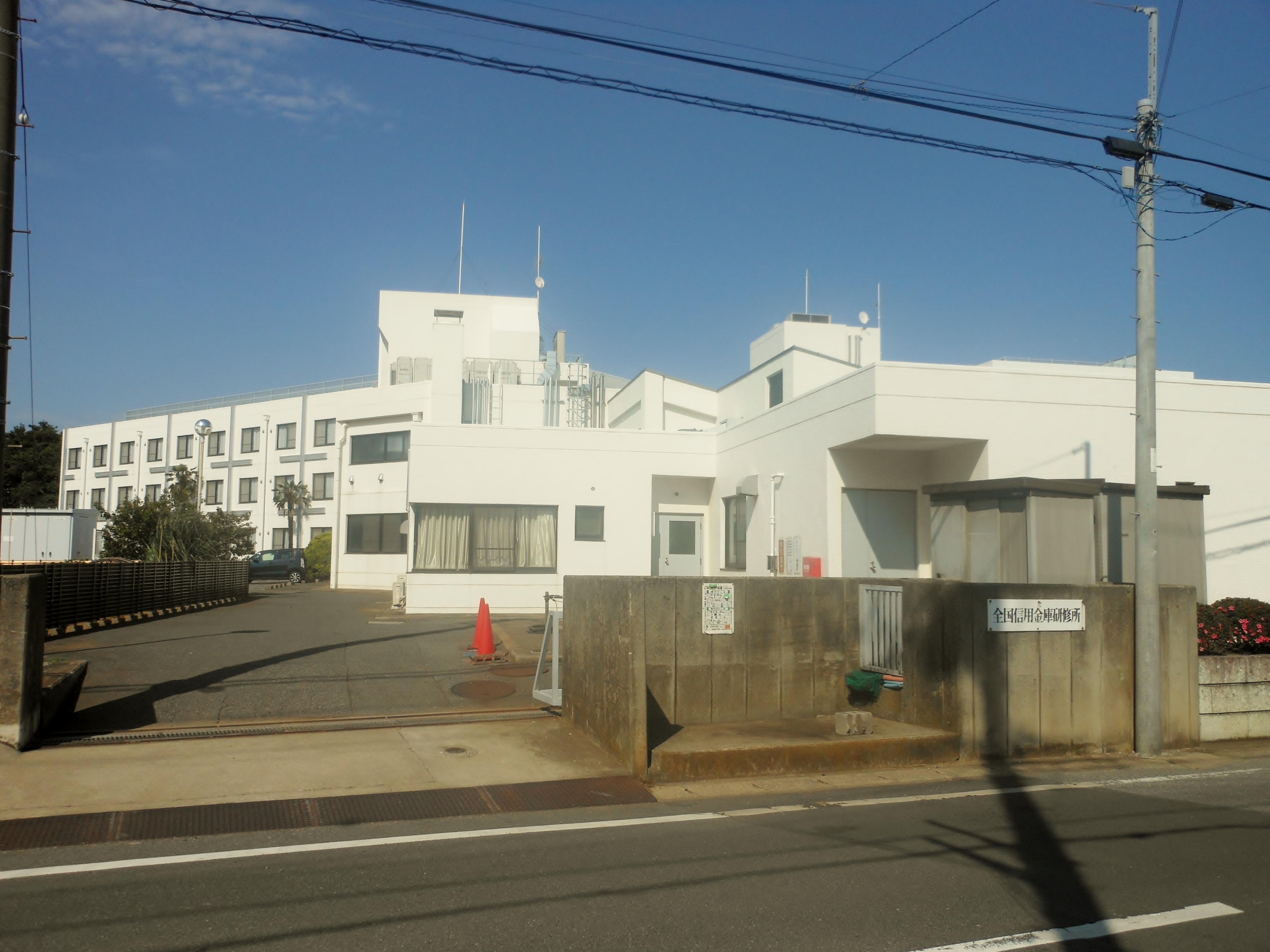 This is the All Japan Shinkin Bank Training Institute or Zenkoku Shinyo Kinko Kenshujo in Kamagaya, Chiba, Japan.